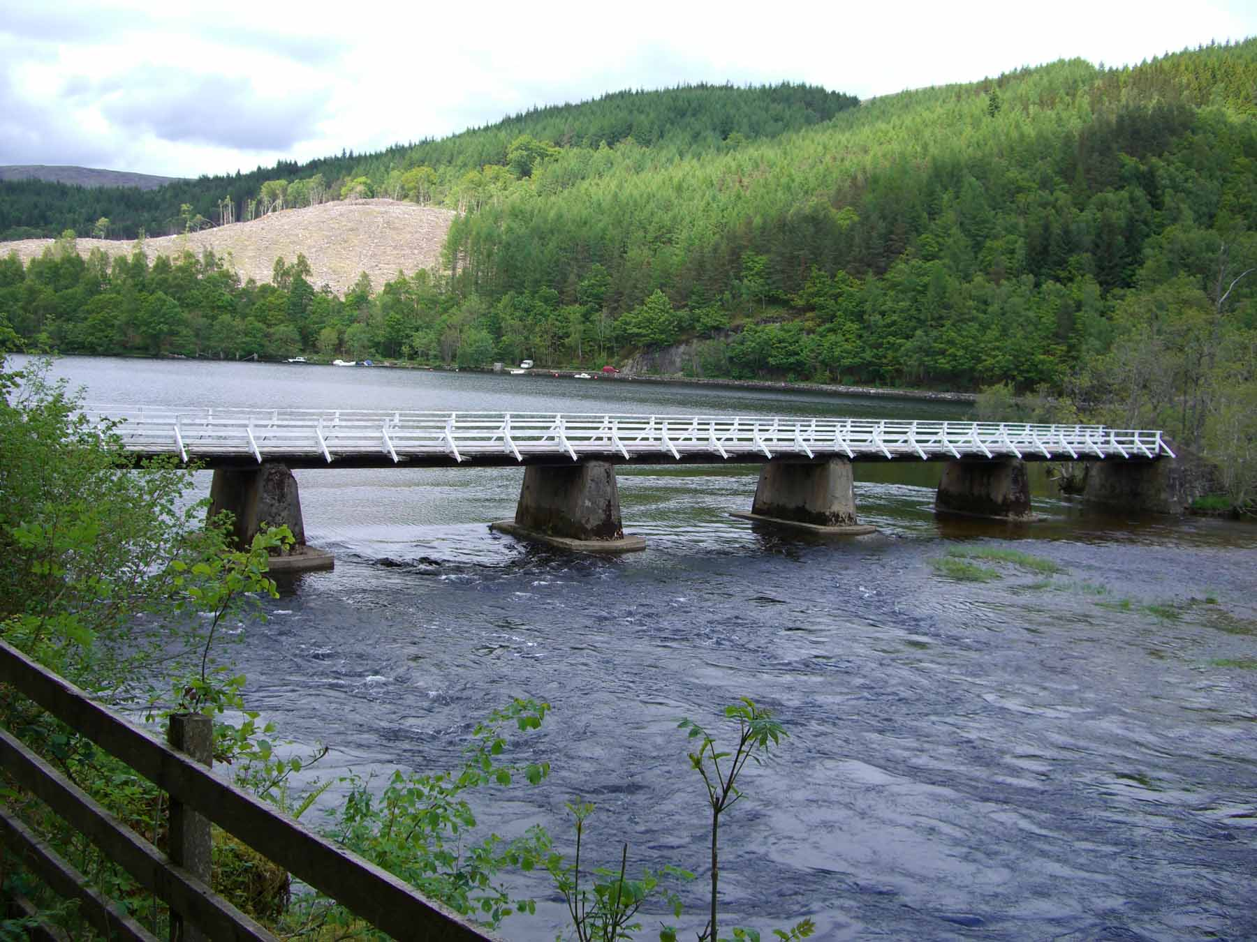 Personal picture taken by Mick Knapton